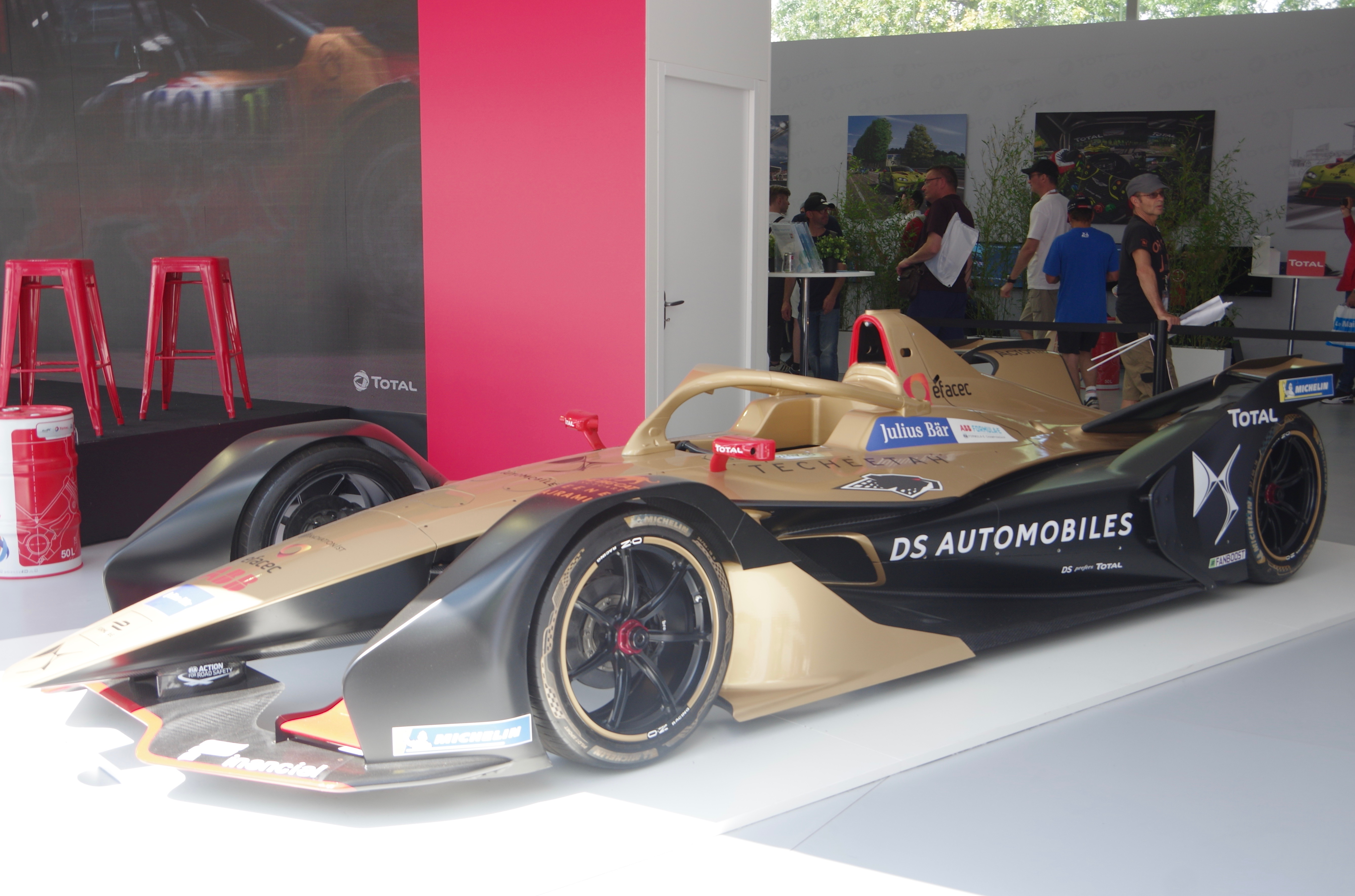 DS Techeetah Formula E car